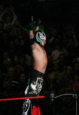 Cropped version of Andrea90's image, File:13 Rey Mysterio.jpg, showing Rey Mysterio during his ring entrance in Milan, Italy on November 6, 2008